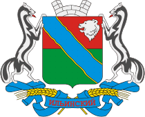 Coat of Arms of Ilinsky, Perm krai, Russia, 2004